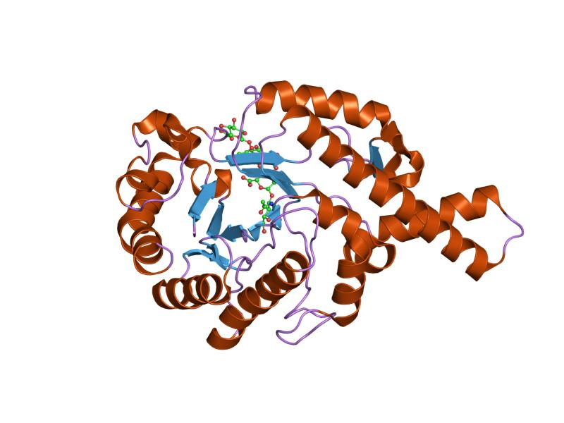 Cartoon representation of the molecular structure of protein registered with 1fcv code.